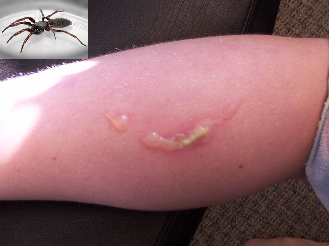 White tailed spider in a glass jar. Specimen is approx 15mm in length. Taken in Swifts Creek, February 2007 According to Norman I. Platnick, this could be a Lampona species, but could also belong to a different genus, eg. Lamponina. The species cannot be defined further from the picture. --Sarefo 18:50, 19 August 2007 (UTC) No copyright. Author is EzyTyper. Picture taken in Australia, 2001.